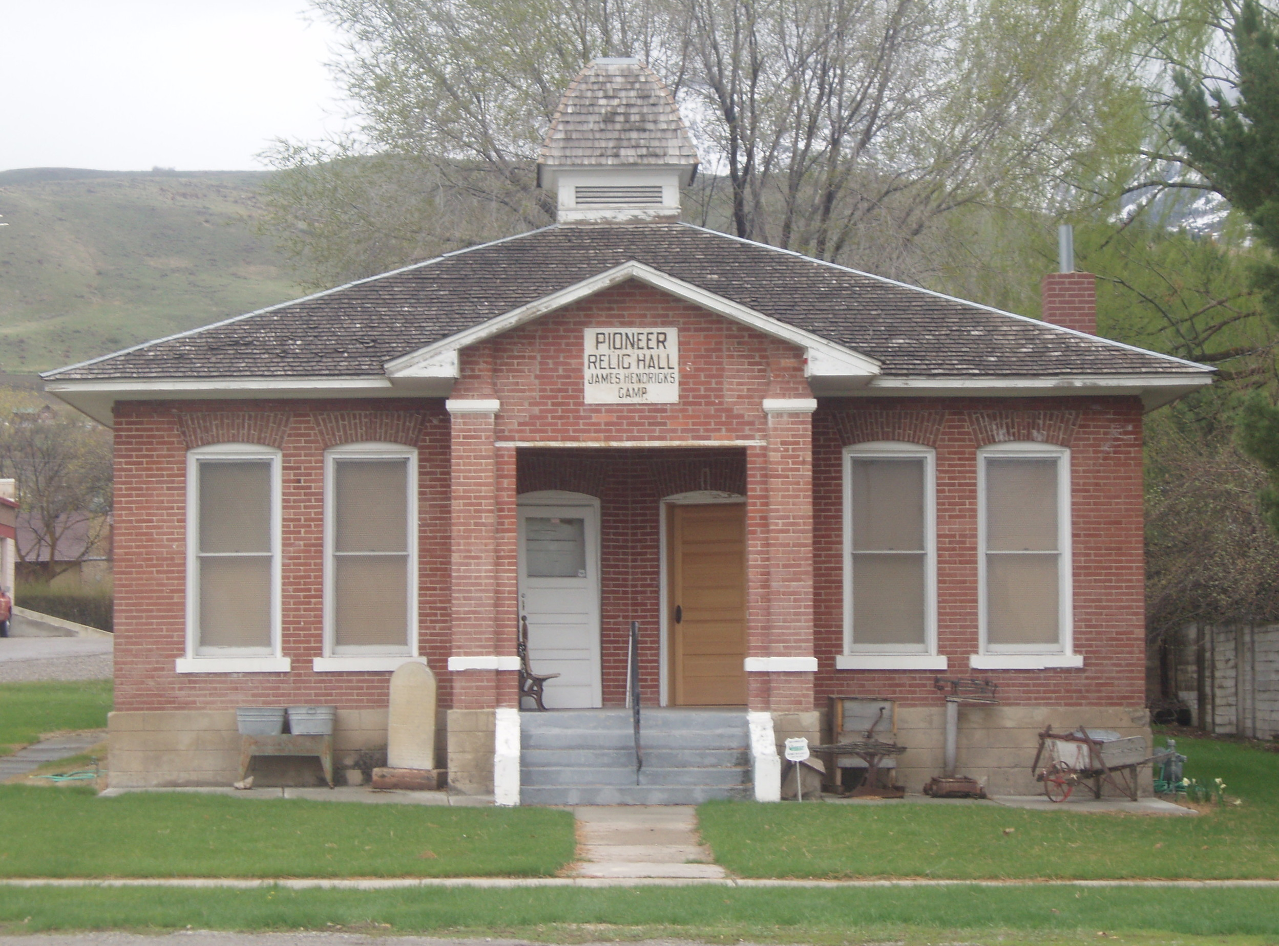 The Richmond Tithing Office, a historic building in Richmond, Utah, United States.